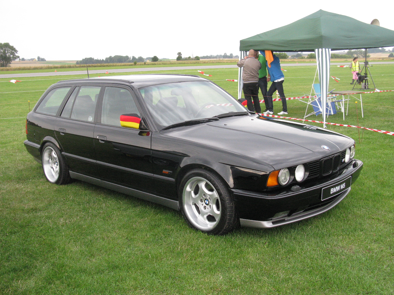 BMW M5 Touring E34